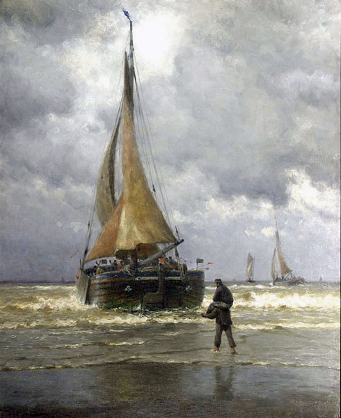 On the Coast of Holland, Fishing Boat Ready for Sea